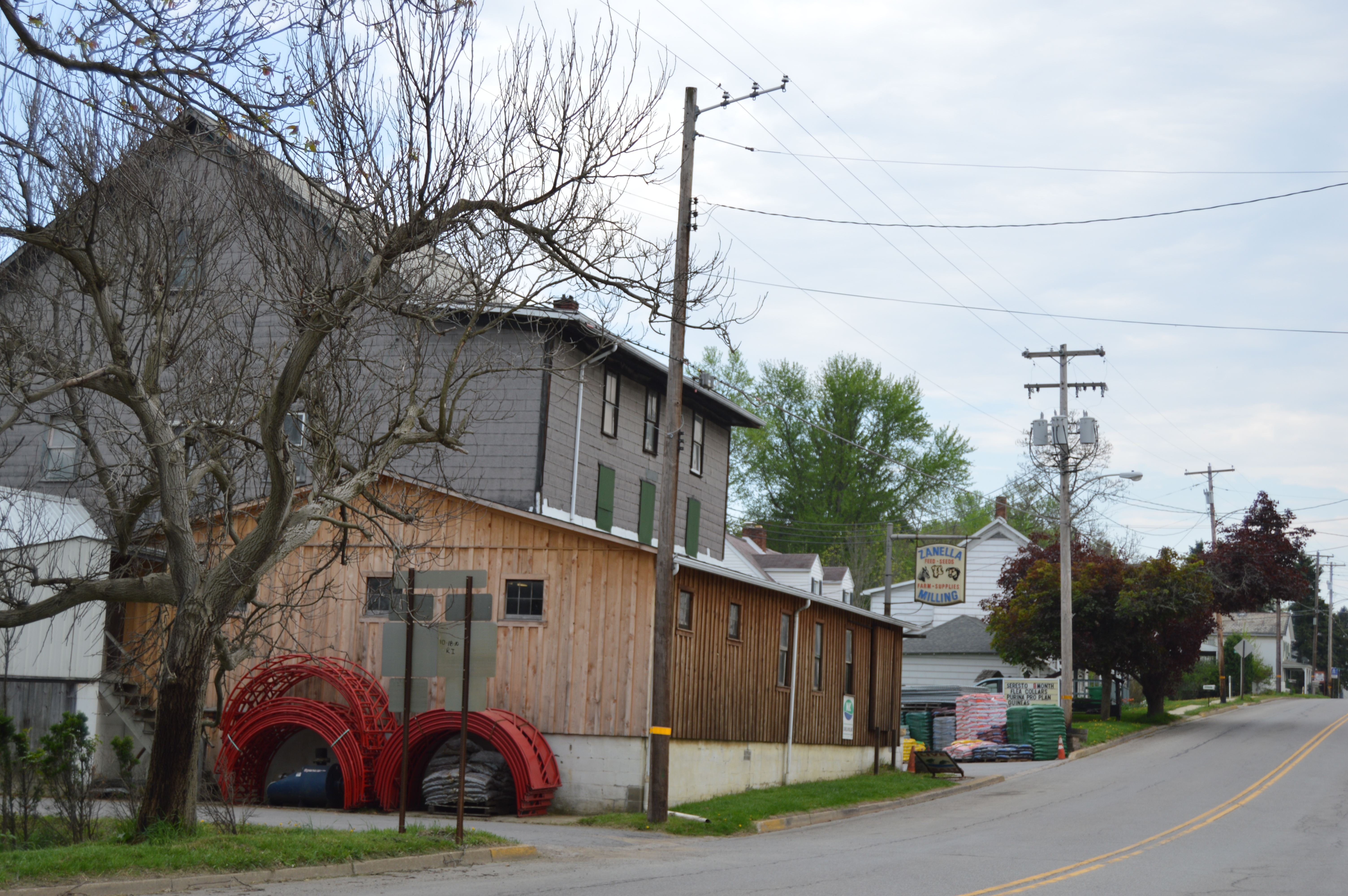 Buildings on the eastern side of Main Street (Pennsylvania Route 308) north of the Washington Street intersection in West Sunbury, Pennsylvania, United States.